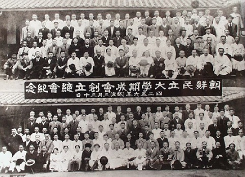 Anniversary of Chosun private establishment founded, Memorial Day=1923.3.30)